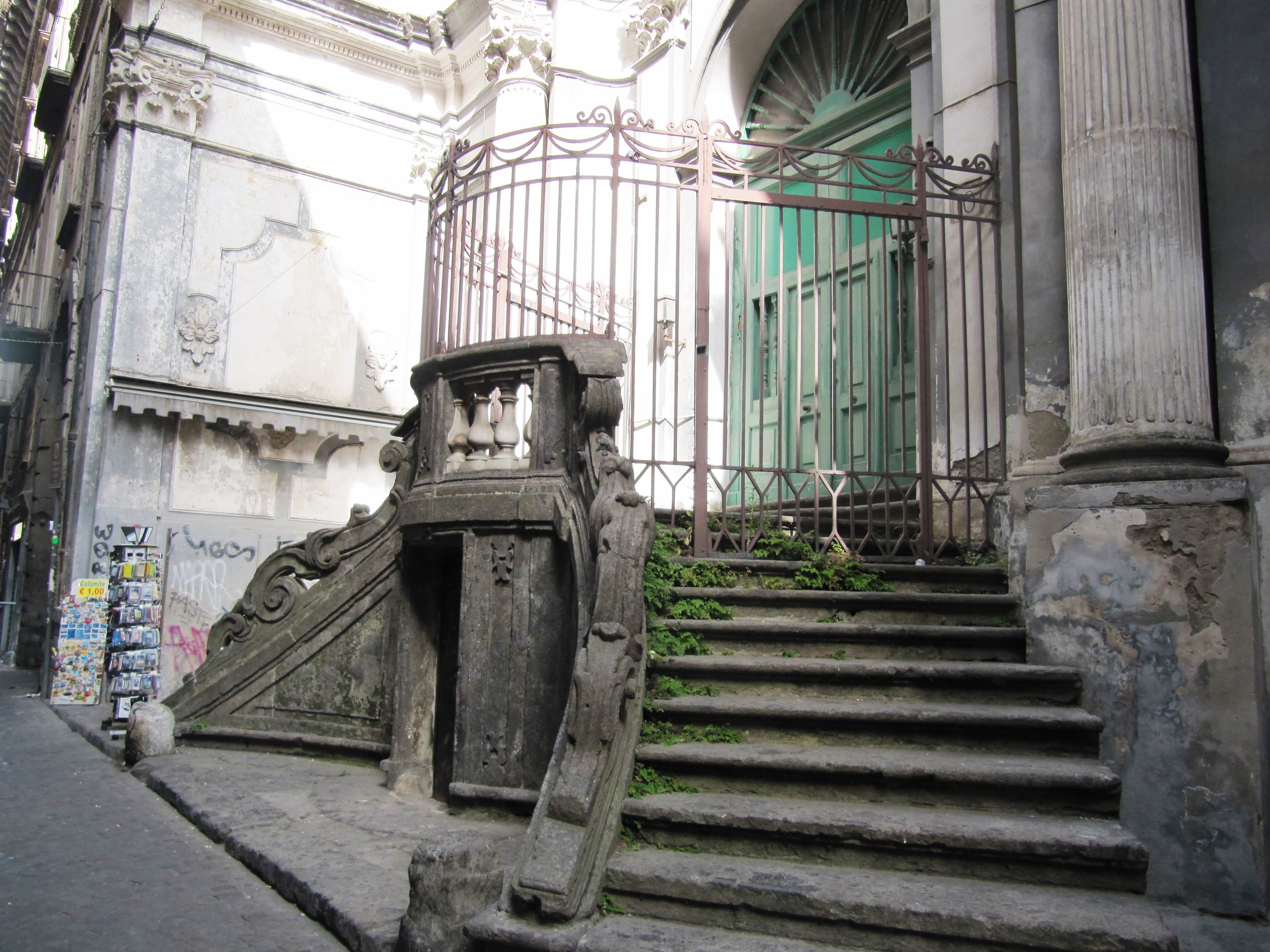 Naples, Italy.